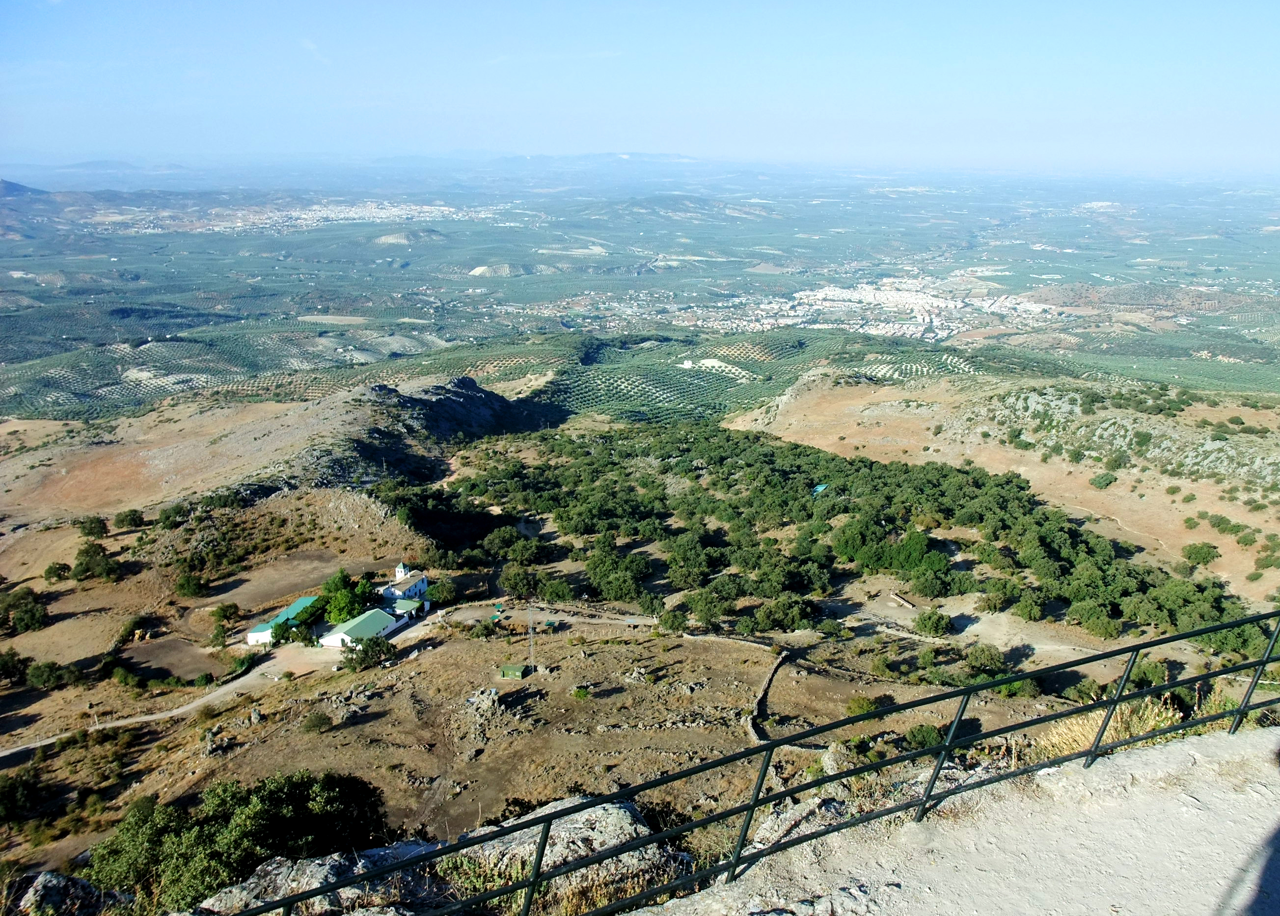 Geopark Sierras Subbéticas in Spain, view to Cabra and Lucena